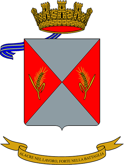 Coat of Arms of the Cremona Logistic Battalion; Italian Army.